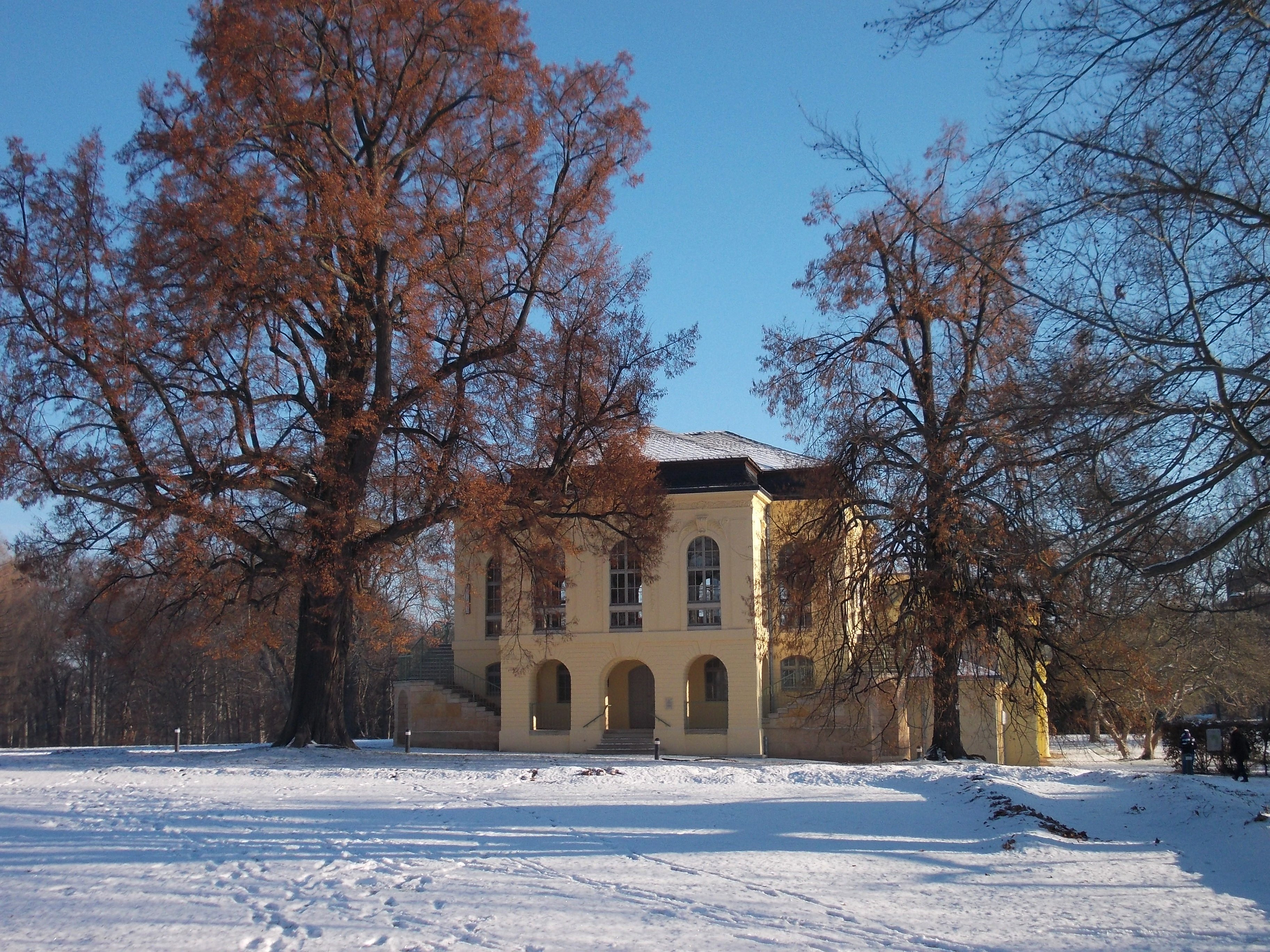 Tea-house in the gardens of Altenburg Castle (Thuringia)